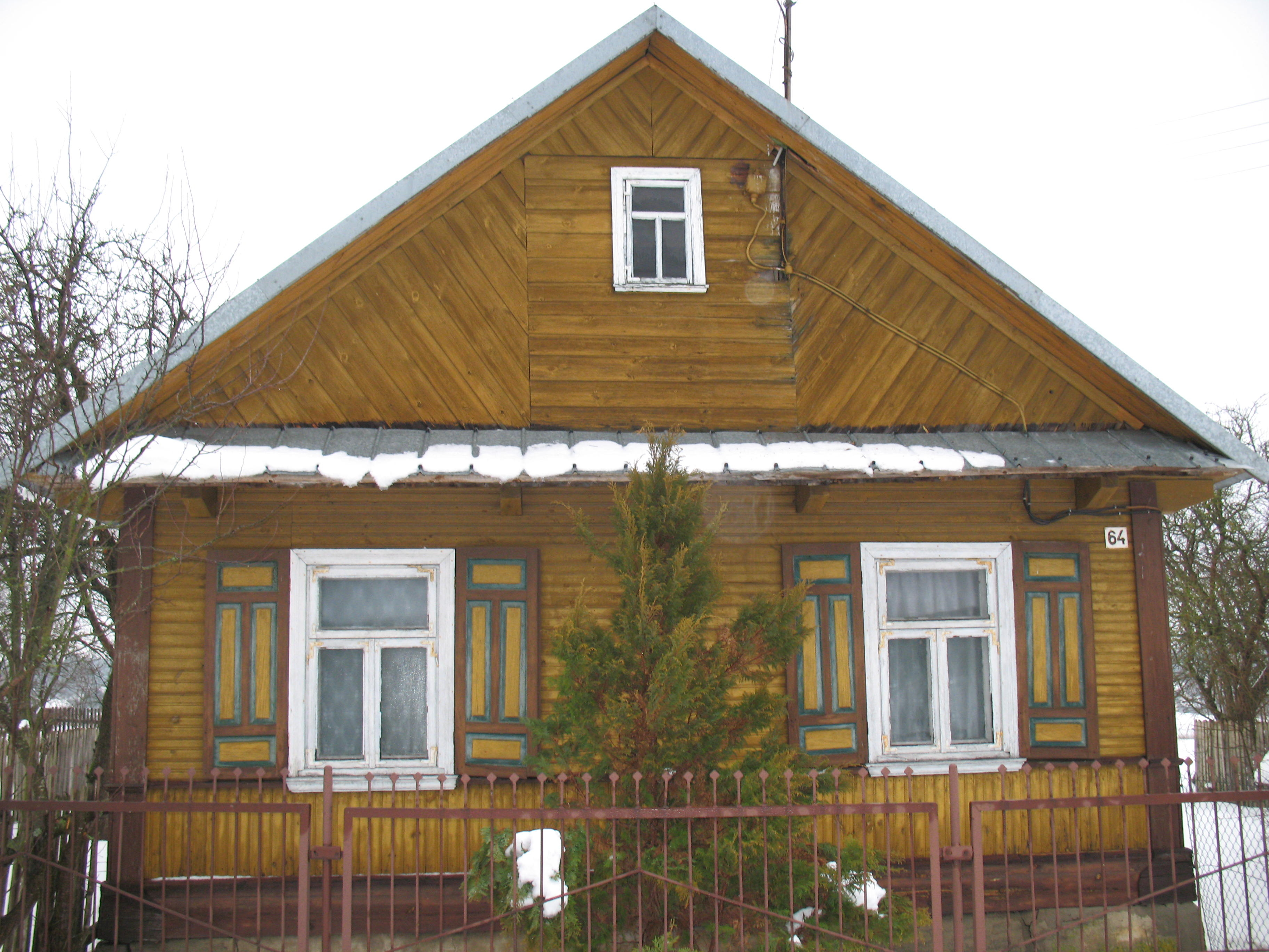 One of the old wooden houses in Soce village.